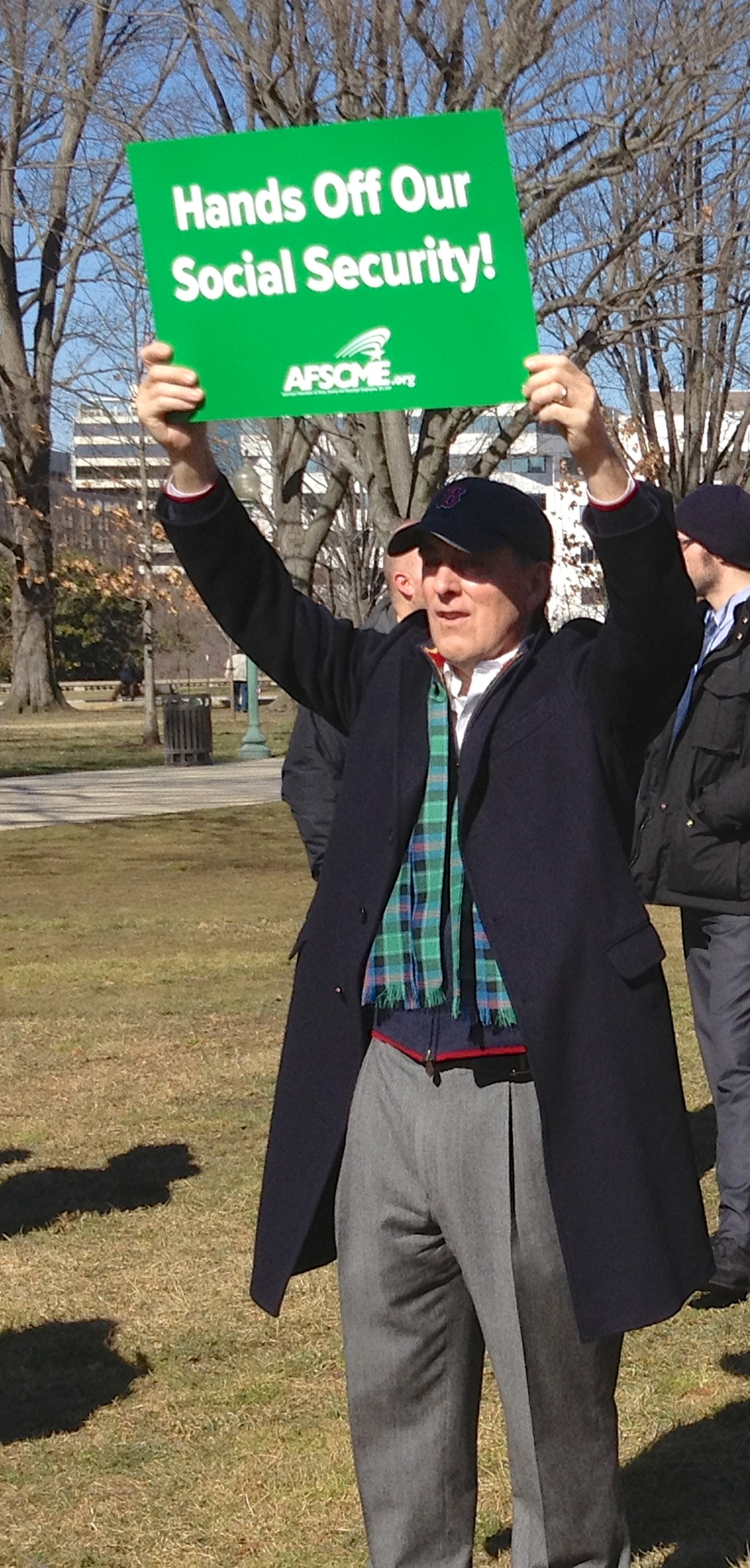 AFSCME supporter, an older man, federal worker wearing gray slacks, holding sign over his head - Hands Off Our Social Security. Photo at a rally in Senate Park, Washington DC, Feb. 12, 2013.